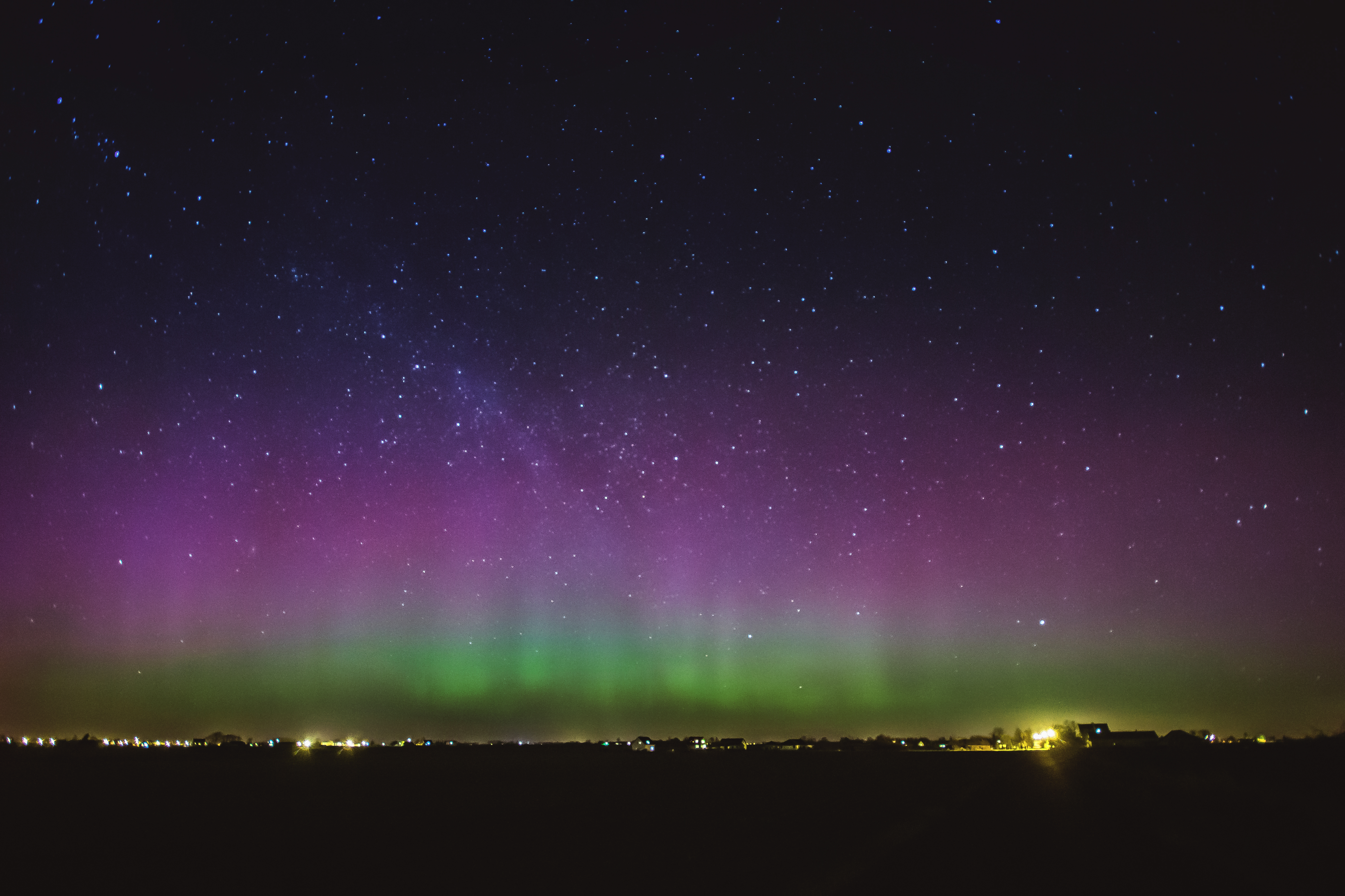 Aurora borealis in Poland